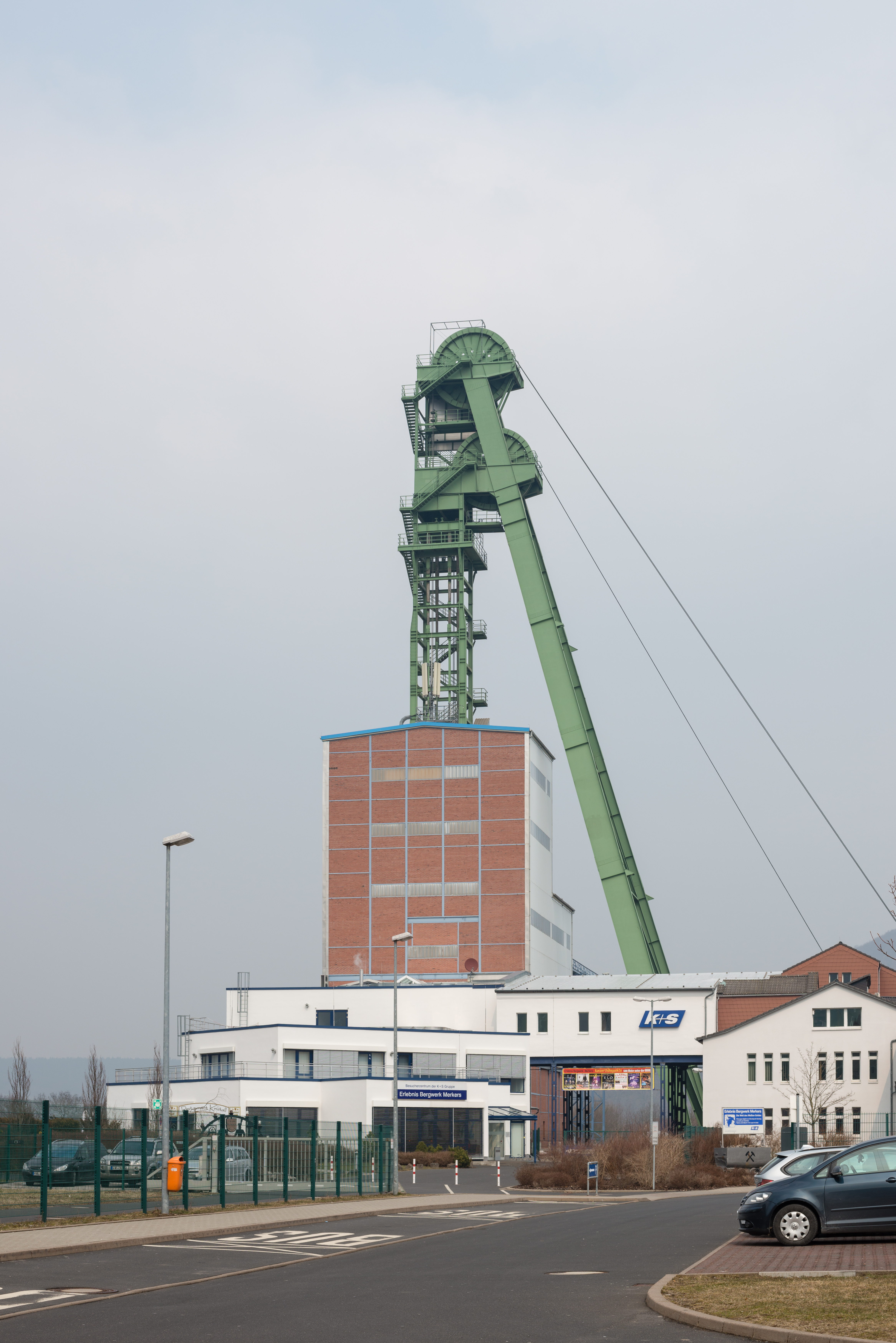 Salt mine Merkers, Thuringia, Germany.